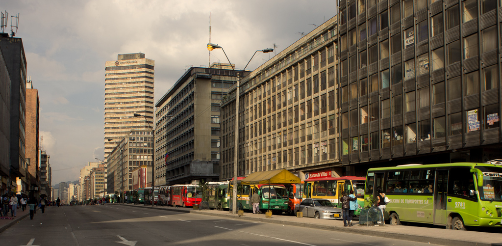 Colorful buses in Bogota